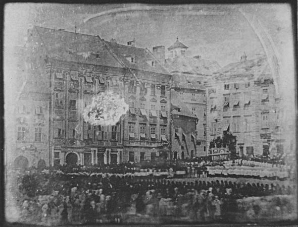 Bedřich Franz: Corpus Christi (feast) in Brno, Czech Republic, 10 June 1841 size: 15.2 x 20.5 cm.